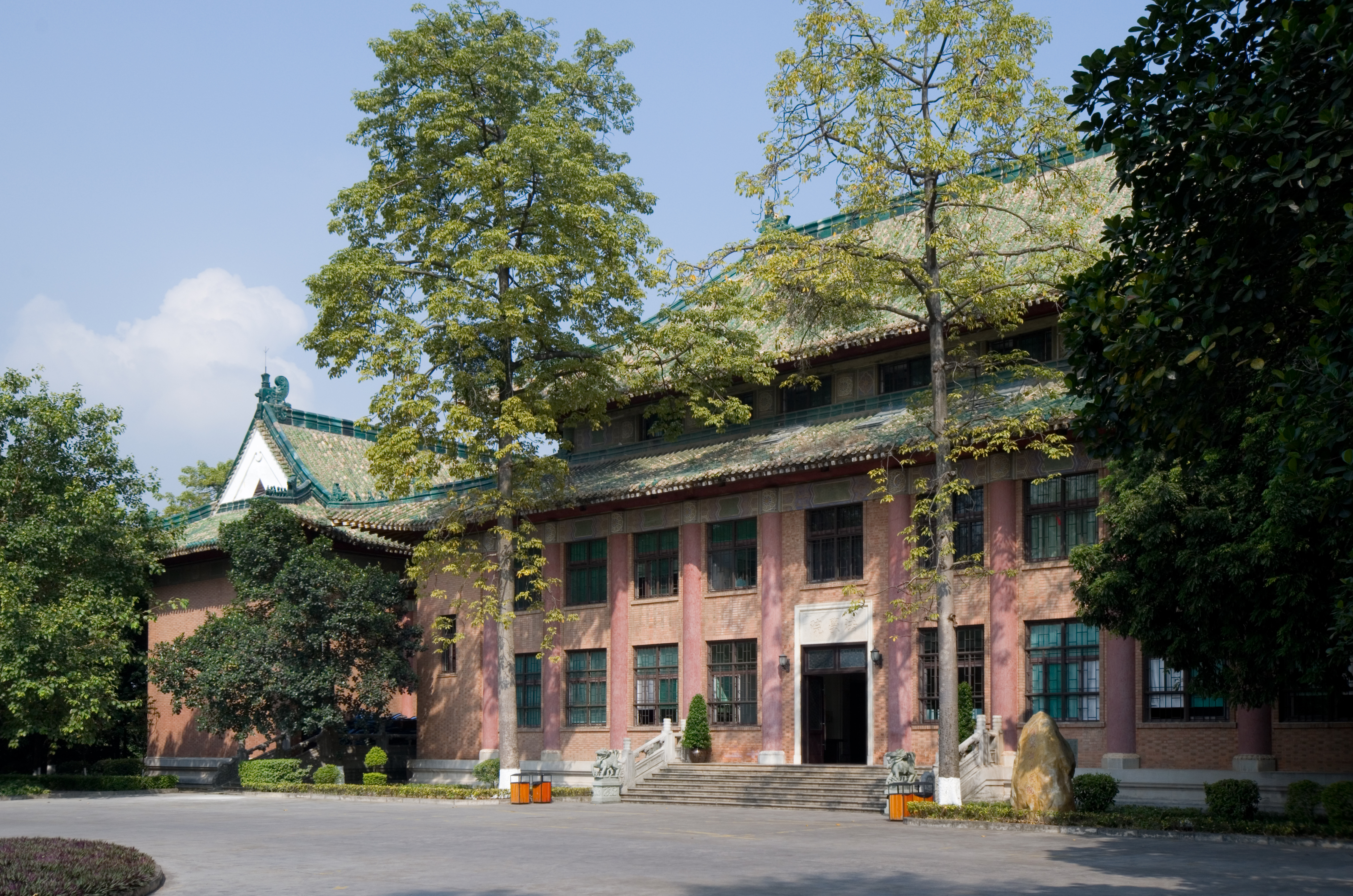 South China University of Technology Building No. 12